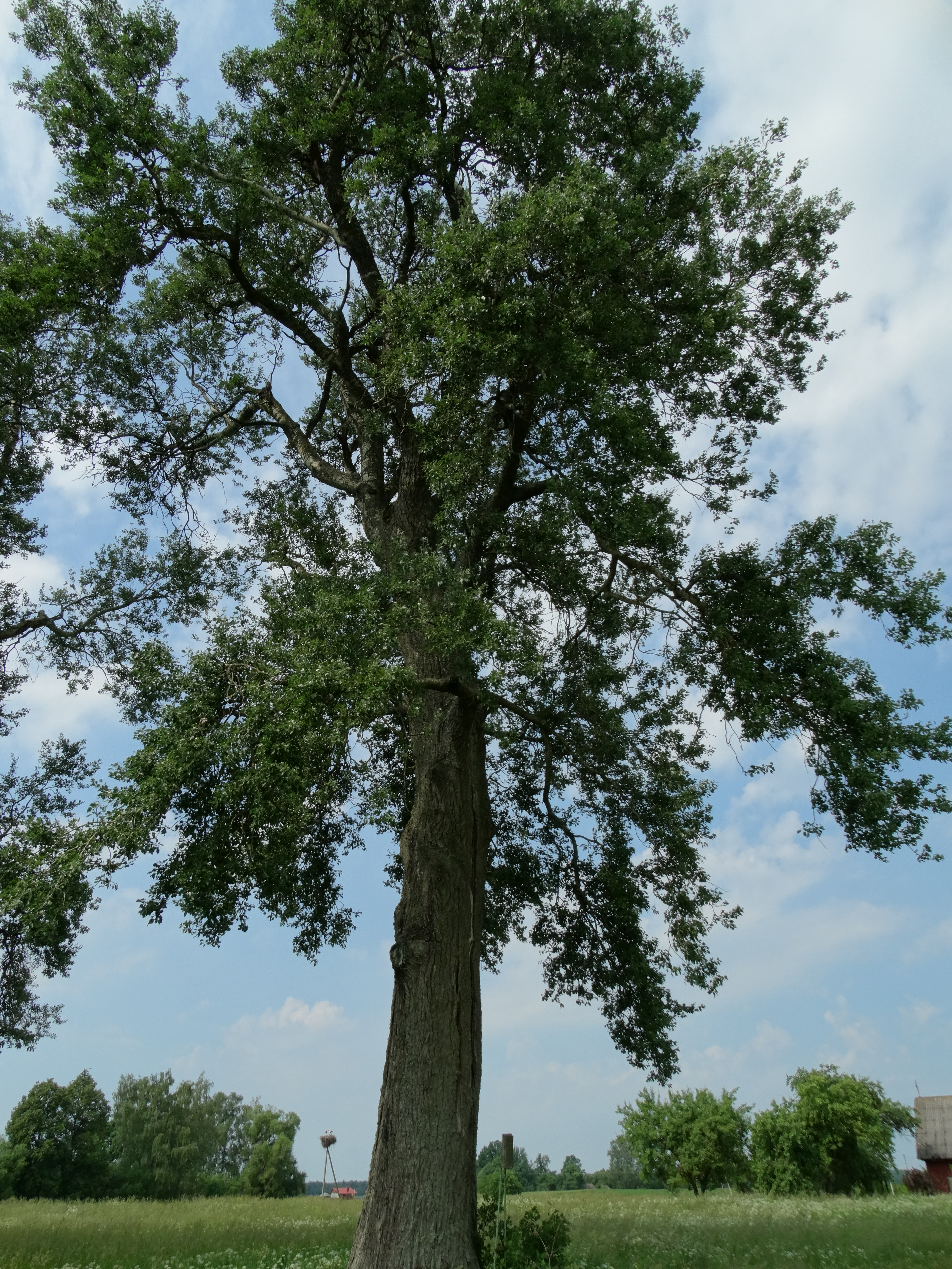 White poplar, Atkočiai, Ukmergė District, Lithuania